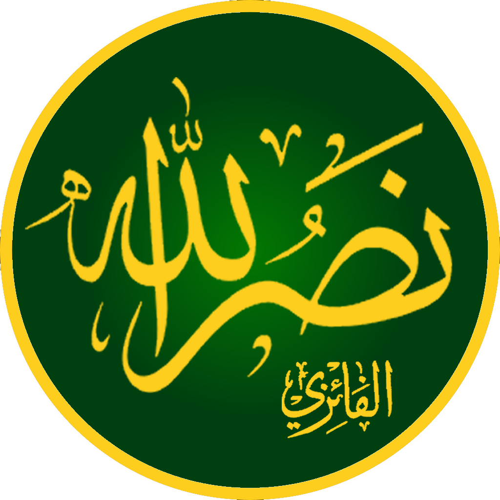 An adapted version of the calligraphic pane of Nasrallah al-Faizi al-Haeri, that is found in the Hagia Sophia.